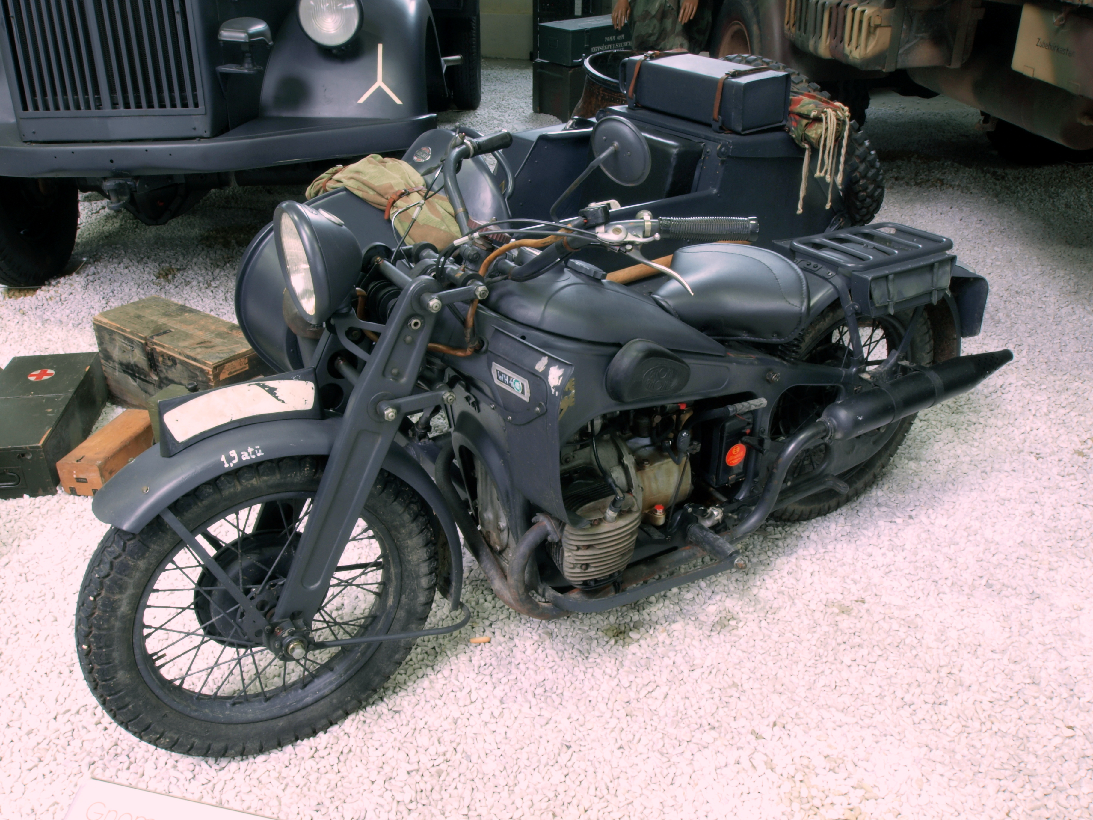 Photographed at the Auto & Technic museum Sinsheim.